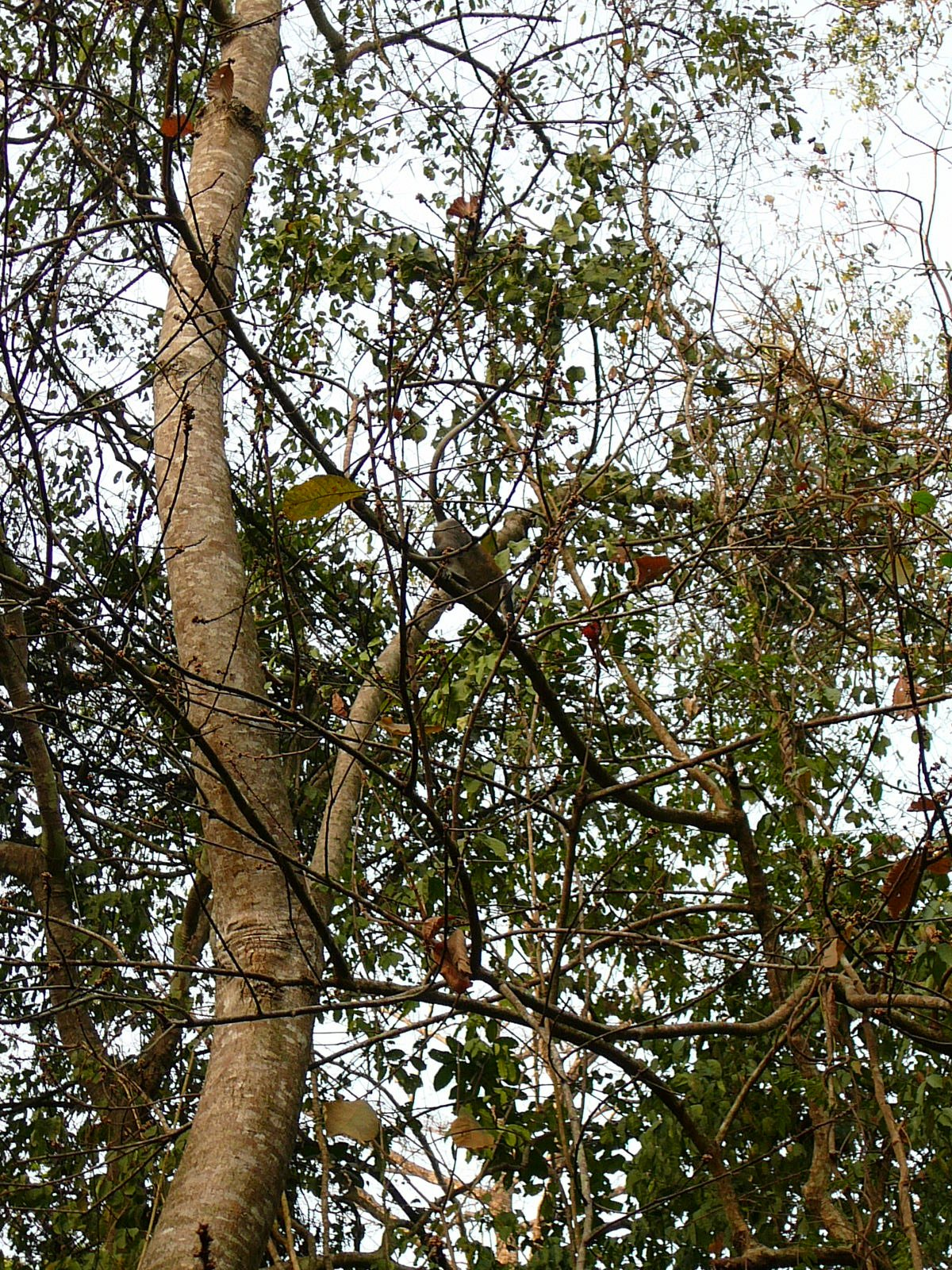 Tropical forest with monkey Tafi Atome (Ghana)